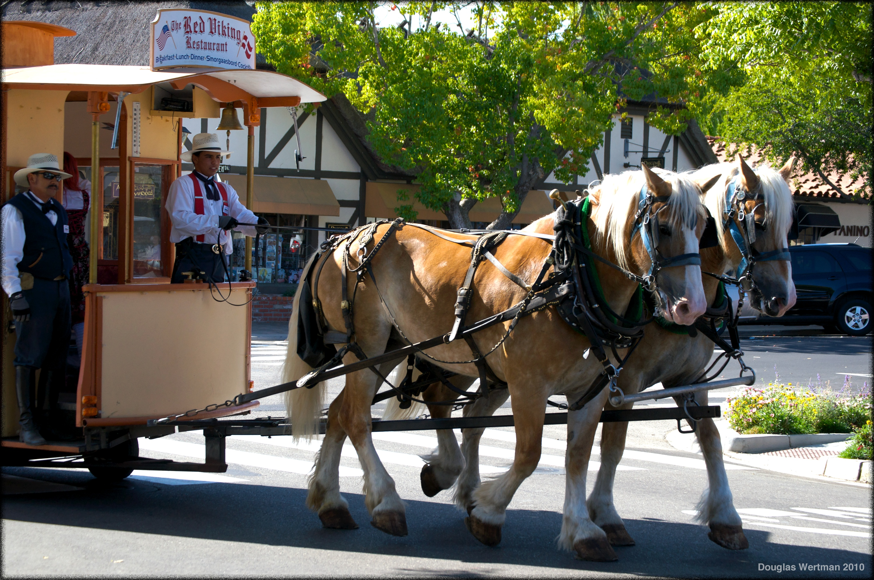 Solvang, California. Belgian Draft horses pulling hønen (the hen) through the village on a sightseeing tour. Hønen is a replica of a 19th century Danish streetcar.